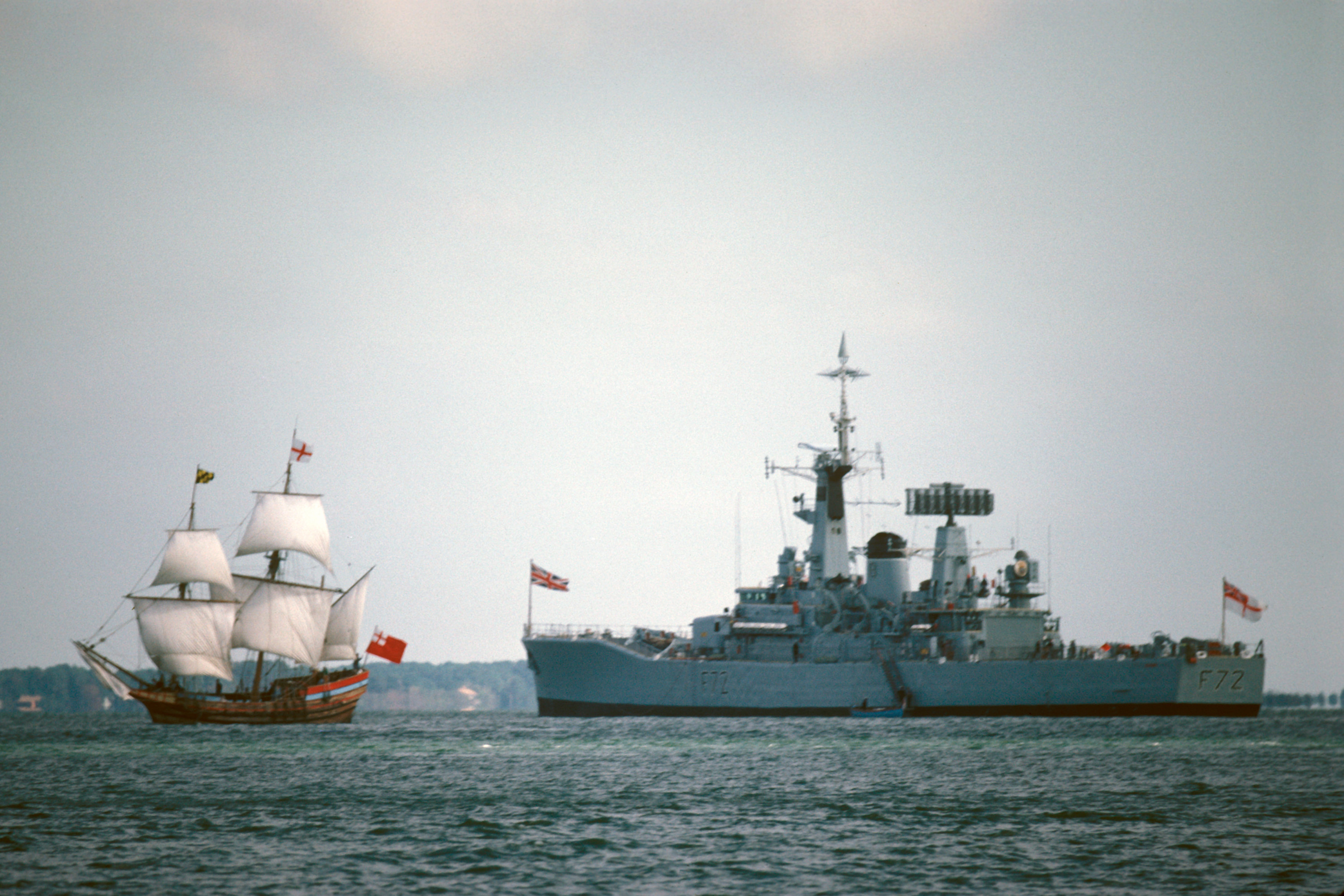 The Royal Navy frigate HMS Ariadne (F72) in the York River (USA) during a re-enactment of the Battle of Yorktown. The Maryland Dove, a sailing ship is nearby.